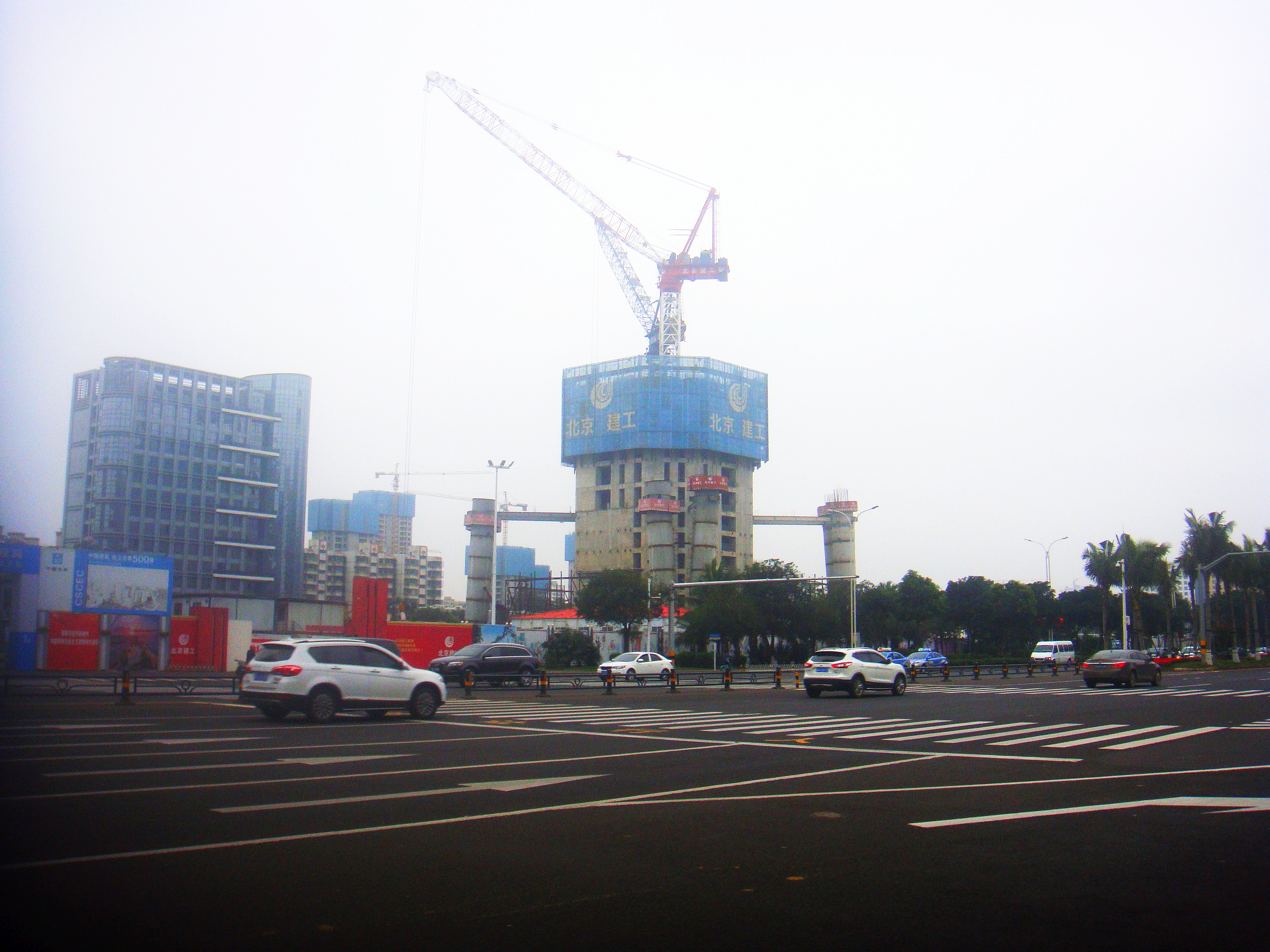 Haikou Tower, Haikou, Hainan, China